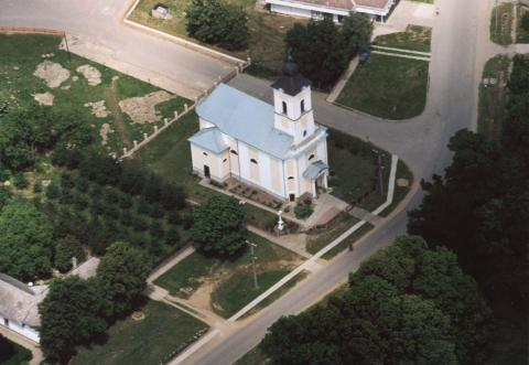 Mándok, Hungary, aerialphotography